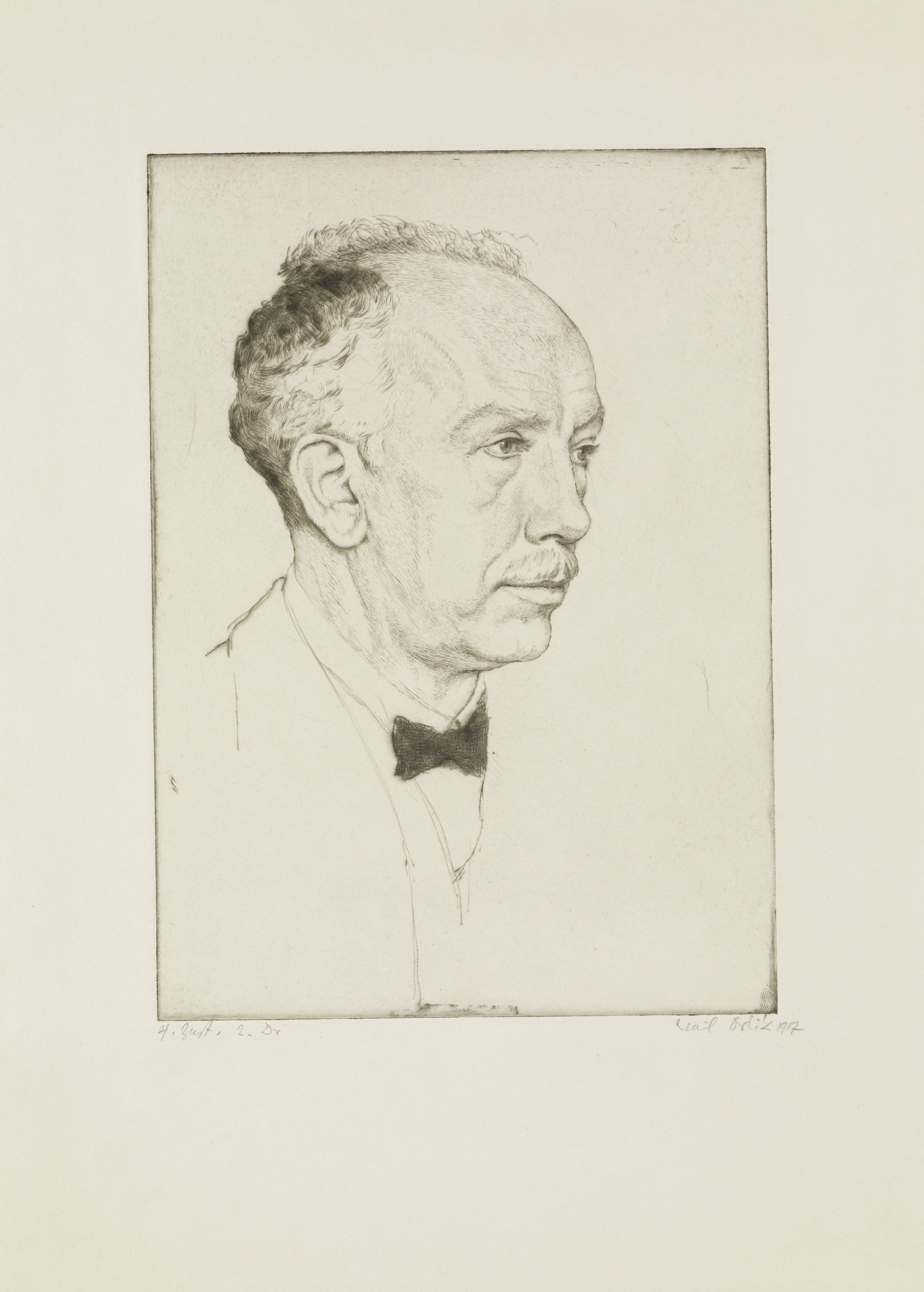 Depicted person: Richard Strauss